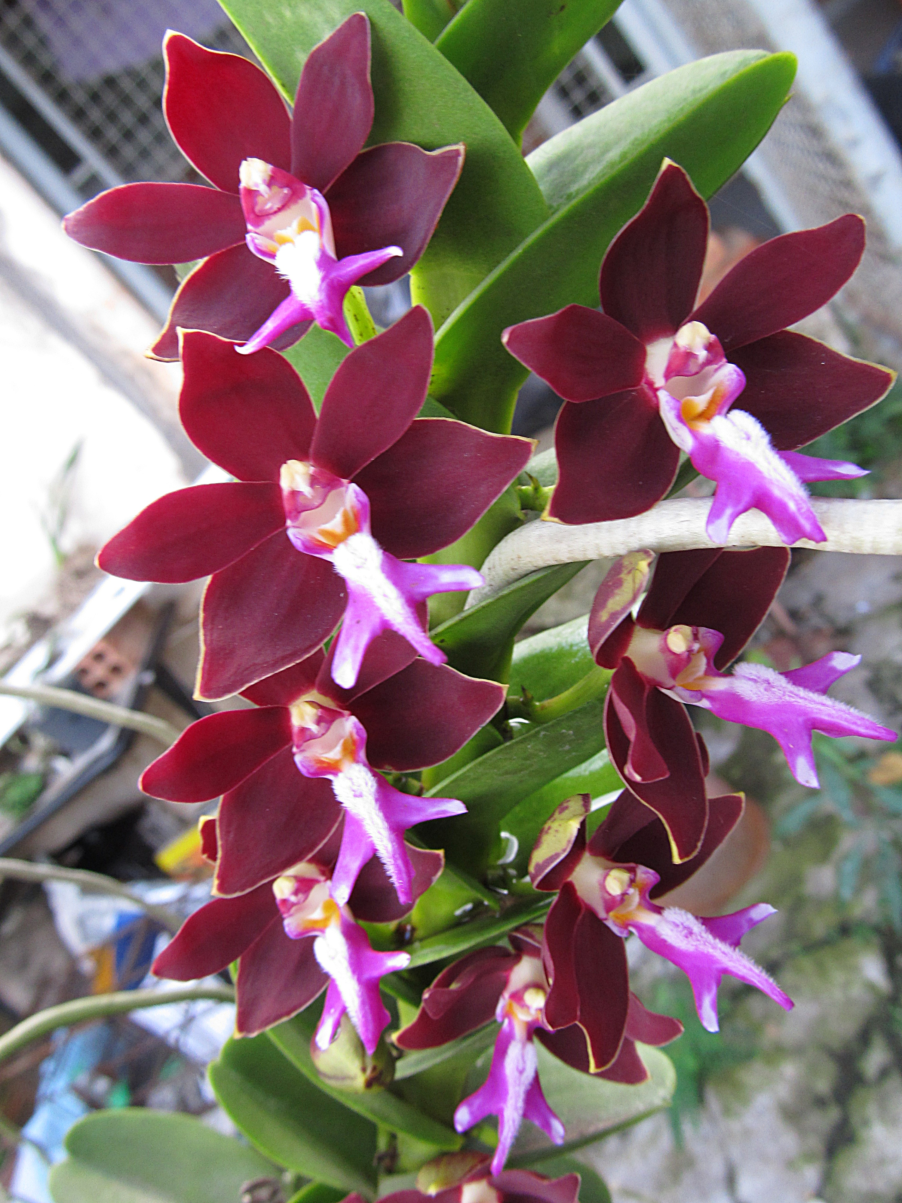 Photo by Christian Aparecido Demetrio